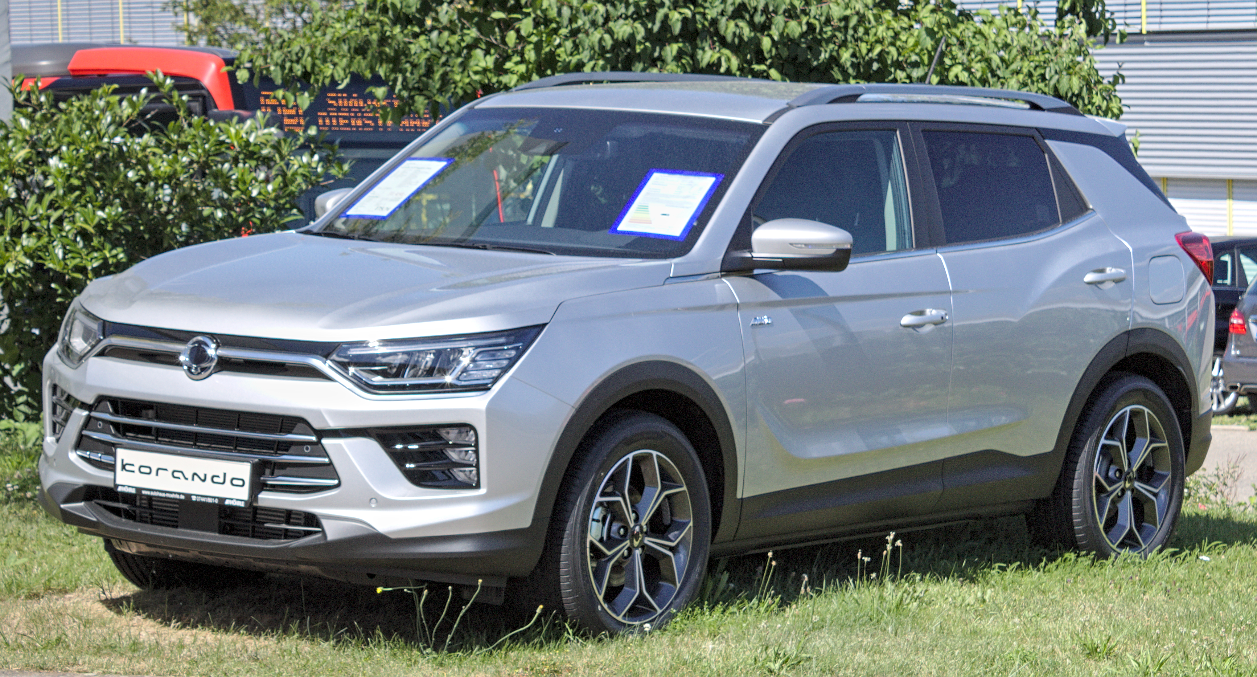 Ssangyong_Korando_(4th_generation) in Freudenstadt